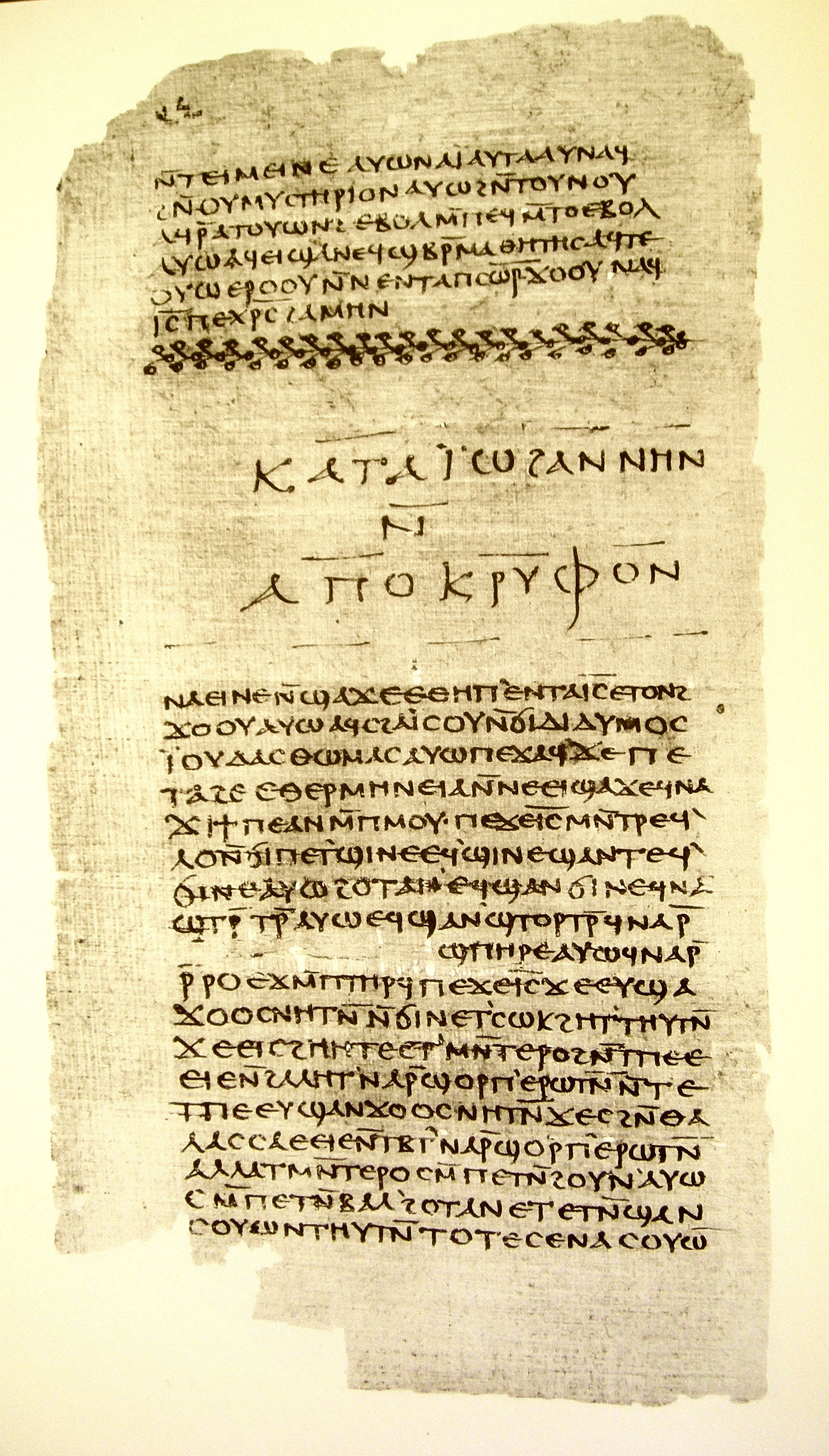 folio 32 of Nag Hammadi Codex II, with the ending of the Apocryphon of John, and the beginning of the Gospel of Thomas